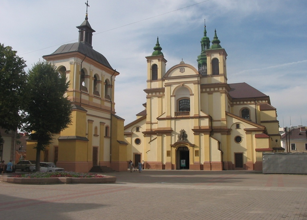 Former Roman Catholic Cathedral in Ivano-Farnkivsk, western Ukraine. It houses museum of Sacral Art of Galicia today.